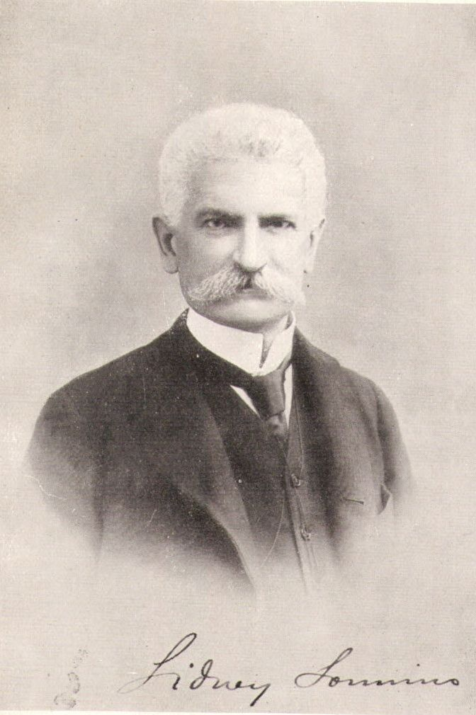 Sidney Sonnino (11 March 1847 – 24 November 1922). Italian politician.